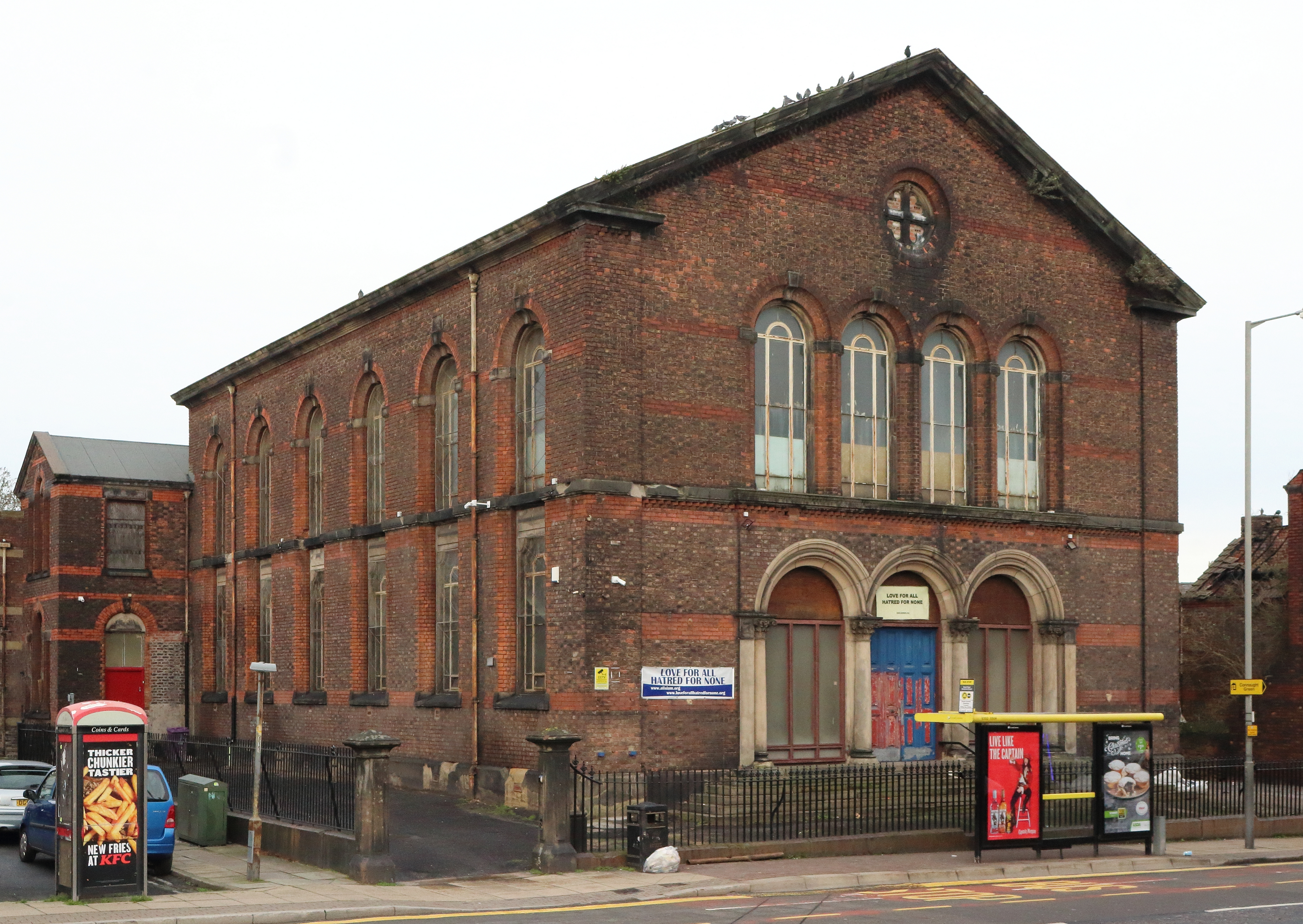 Grade II listed chapel by James Picton, 1864 on Breck Road, Everton, Liverpool. View of the front elevation and west side